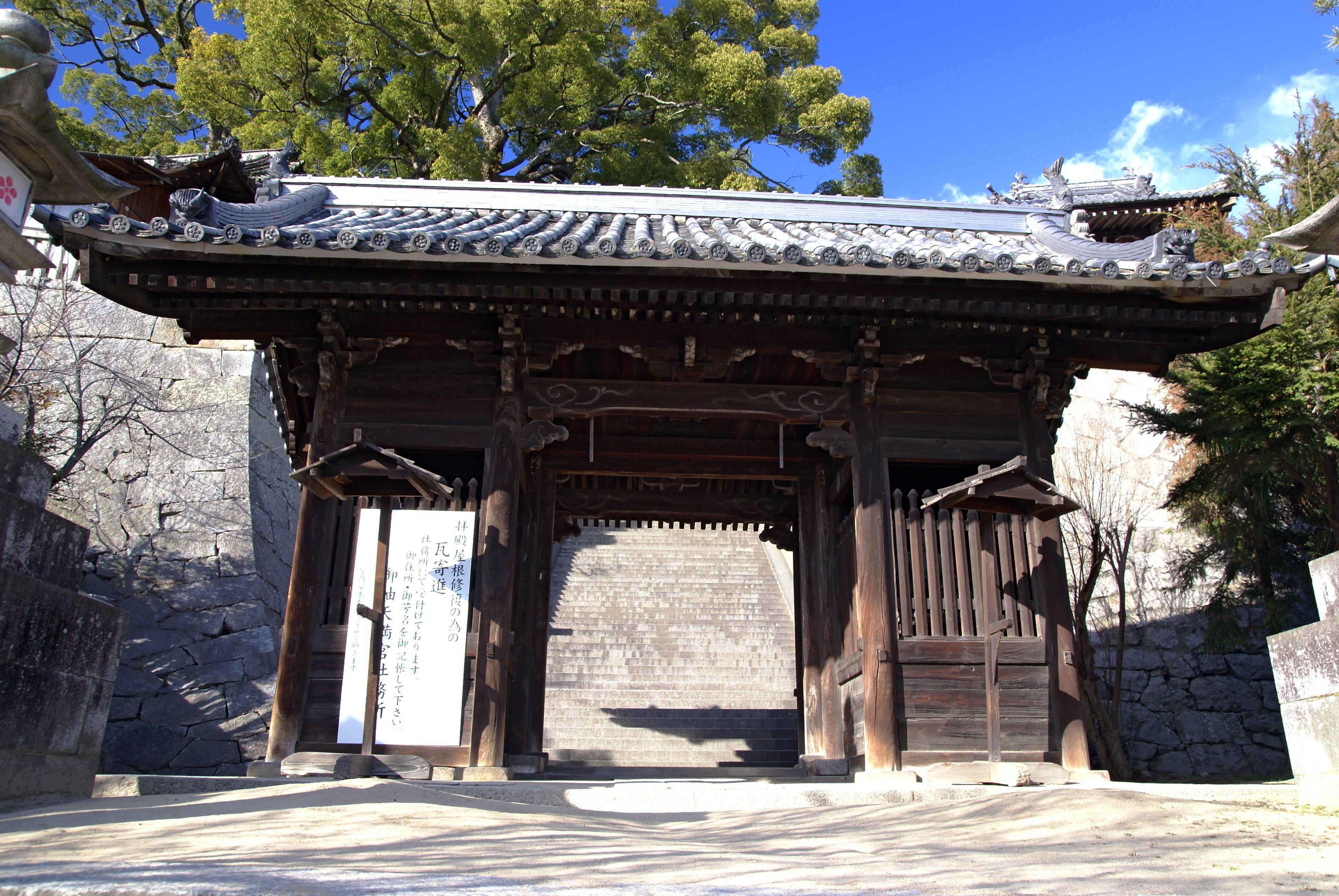 Misode-tenmangu in Onomichi, Hiroshima prefecture, Japan